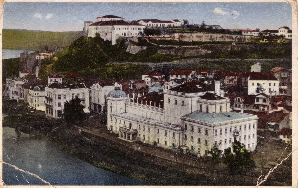 Skopje, Macedonia